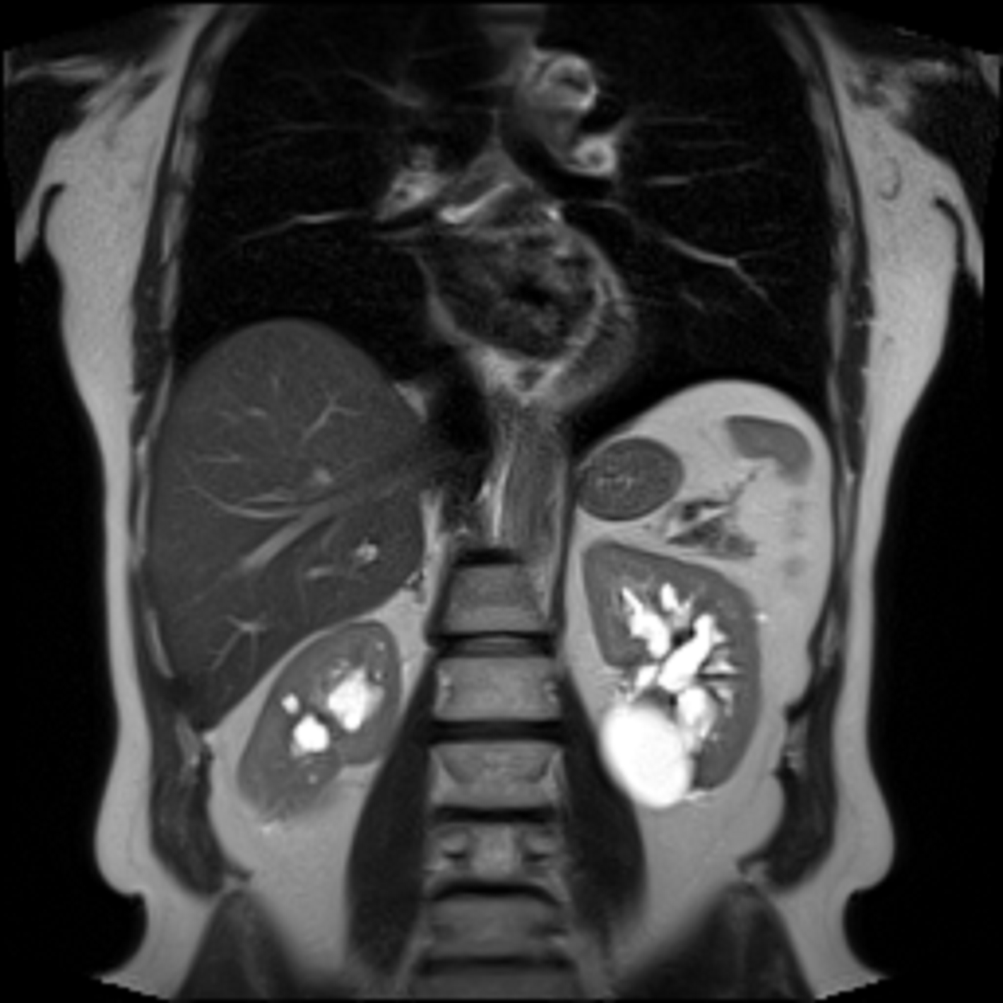 MRI demonstrating a cyst on the left kidney. (Siemens MAGNETOM Aera 1.5T)